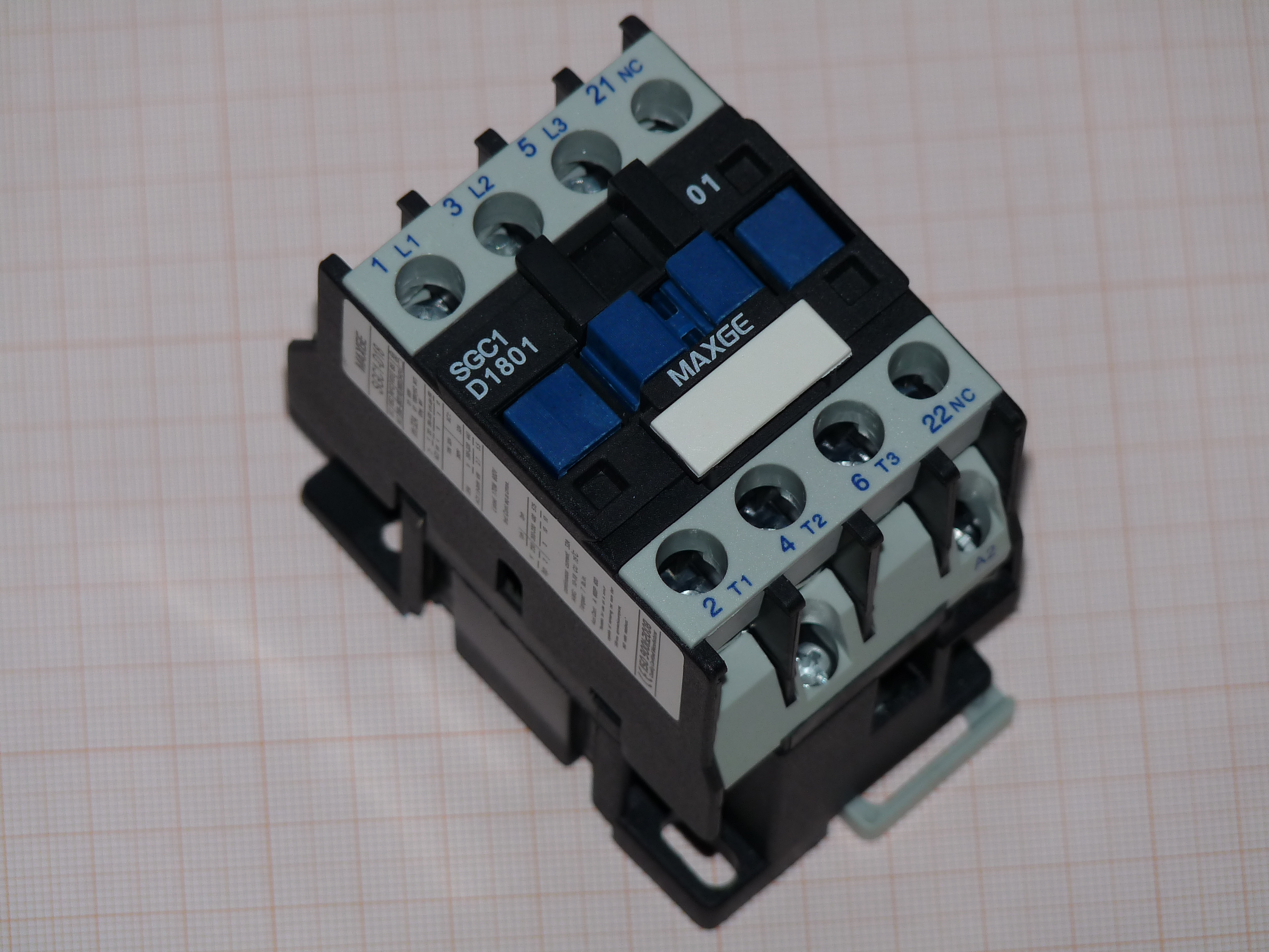 7.5kW contactor for DIN-rail